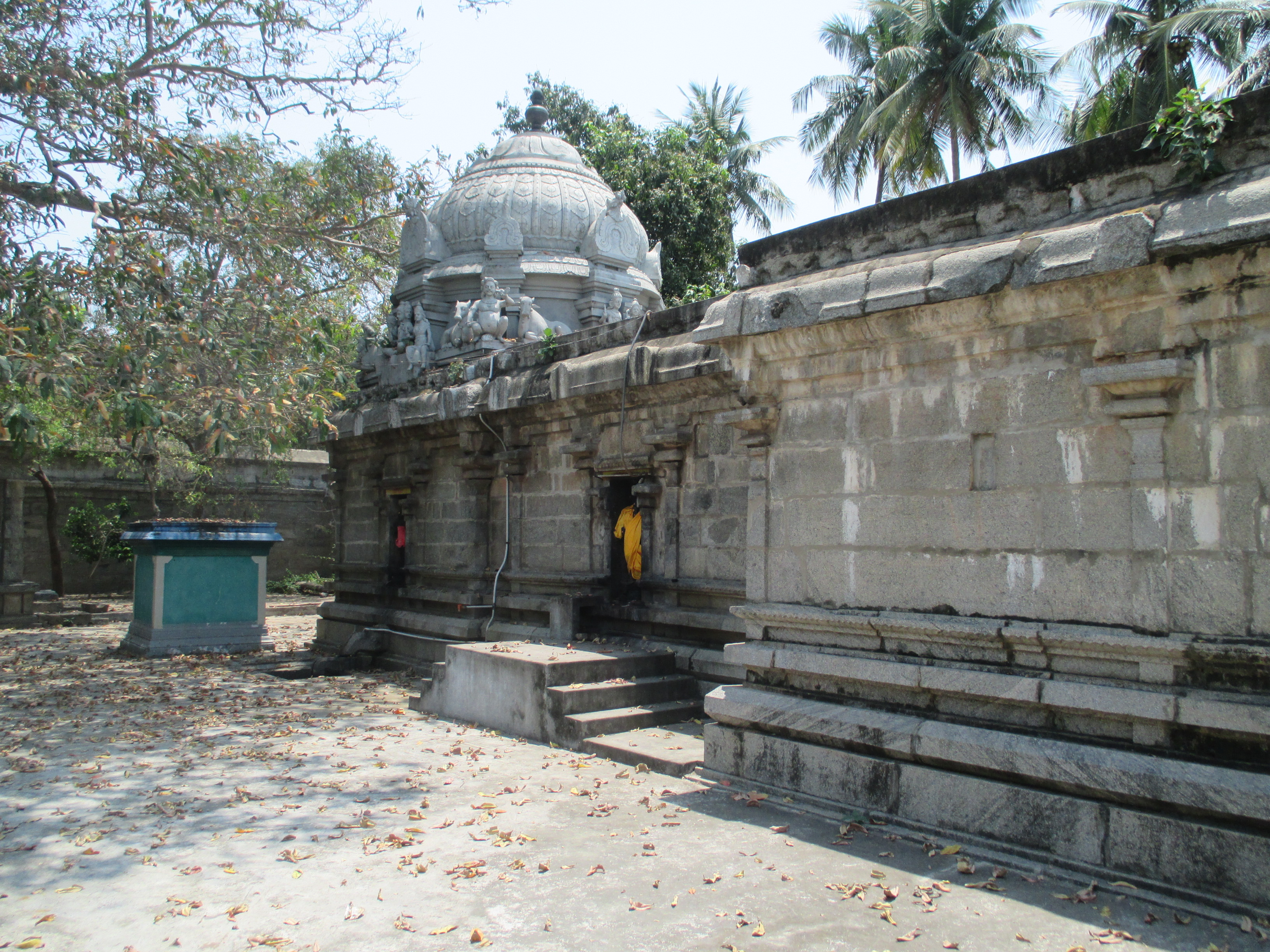 Maruntheeswarar Temple, T.Idayar